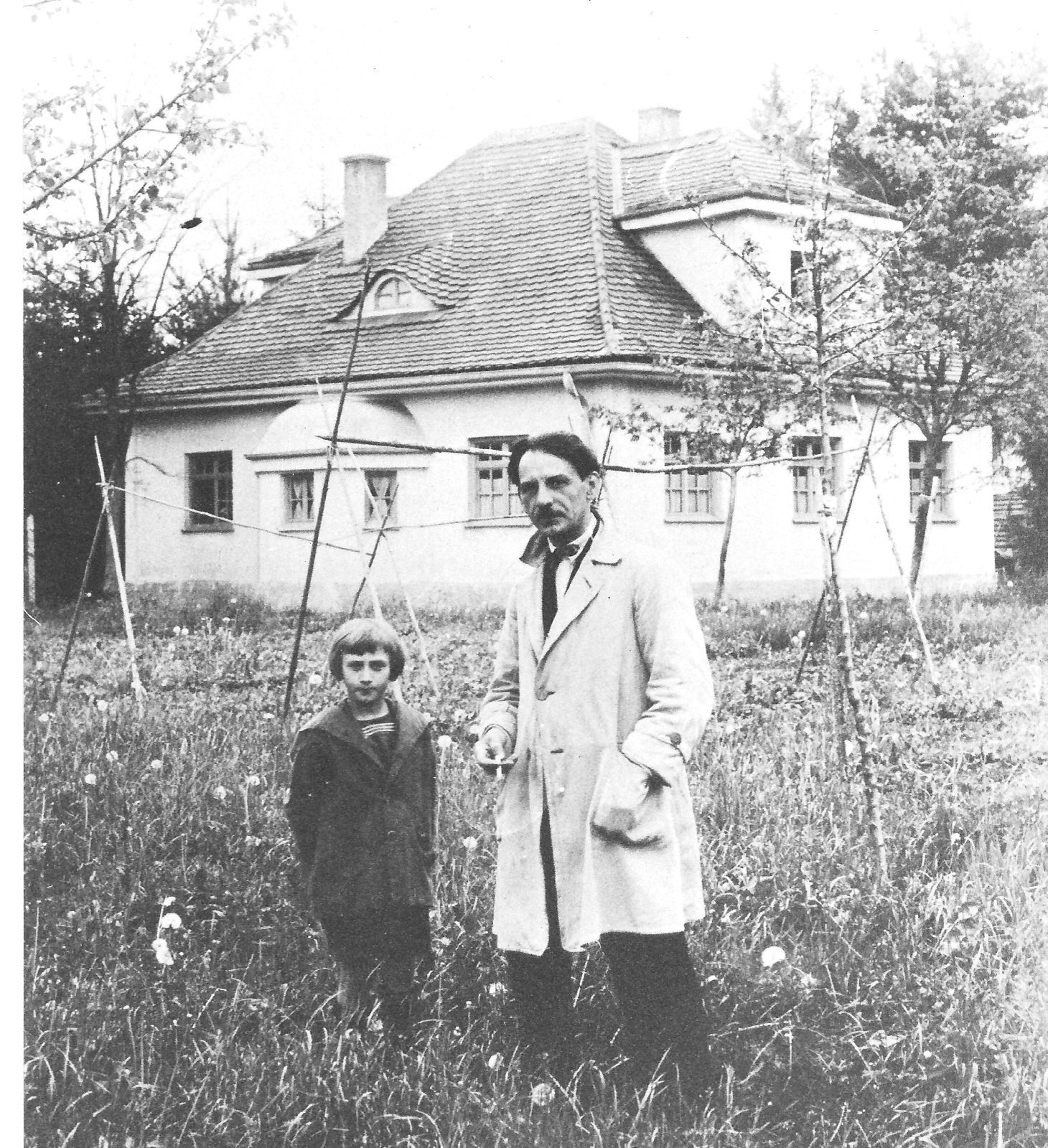 This photo shows the Greek expressionist painter George Bouzianis with his son George in front of their house in Eichenau, Germany, on a side street, in 1927. Photographer unknown.